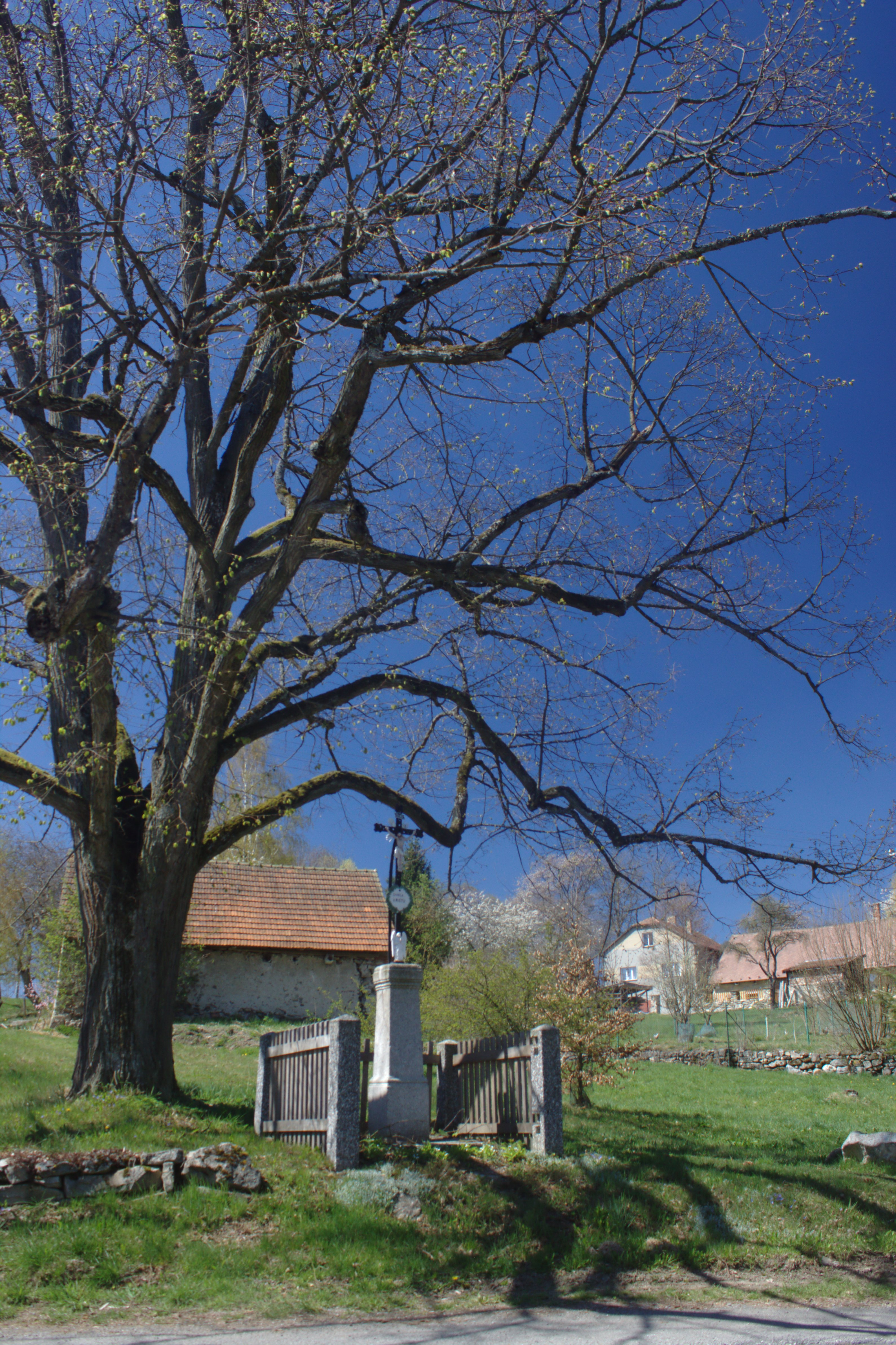 This photograph was created as a part of Wikiexpedition Mladá Vožice, a project supported by Wikimedia Foundation grant.